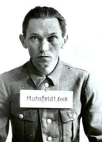 Eric Mußfeldt (1913 – 1948), a Nazi German war criminal, senior SS-officer (Oberscharfuehrer) in two extermination camps in occupied Poland including at Auschwitz as well as at the Majdanek concentration camp during World War II. He was tried at the Auschwitz Trial of 1947 in Kraków, sentenced to death for crimes against humanity and executed.